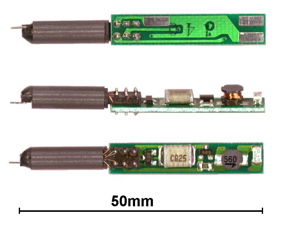 An inverter using a resonance transformer